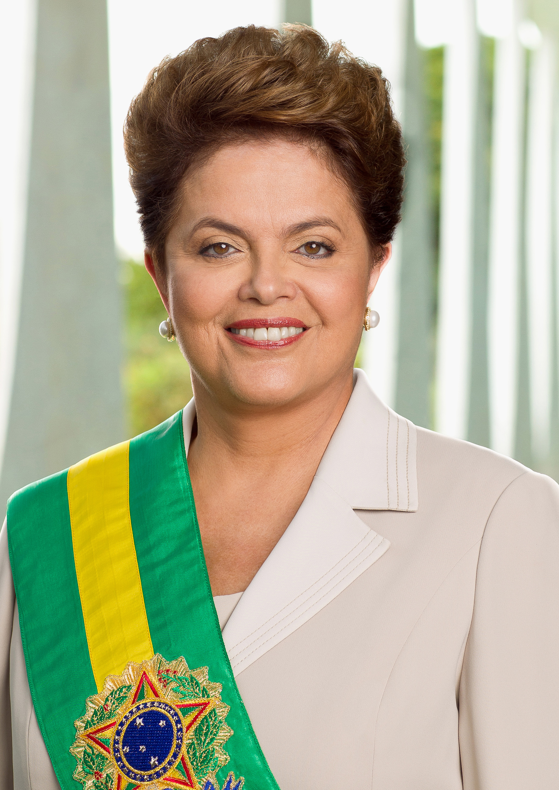 Official photo of President Rousseff, taken by official photographer, at Alvorada Palace on January 9th, 2011.